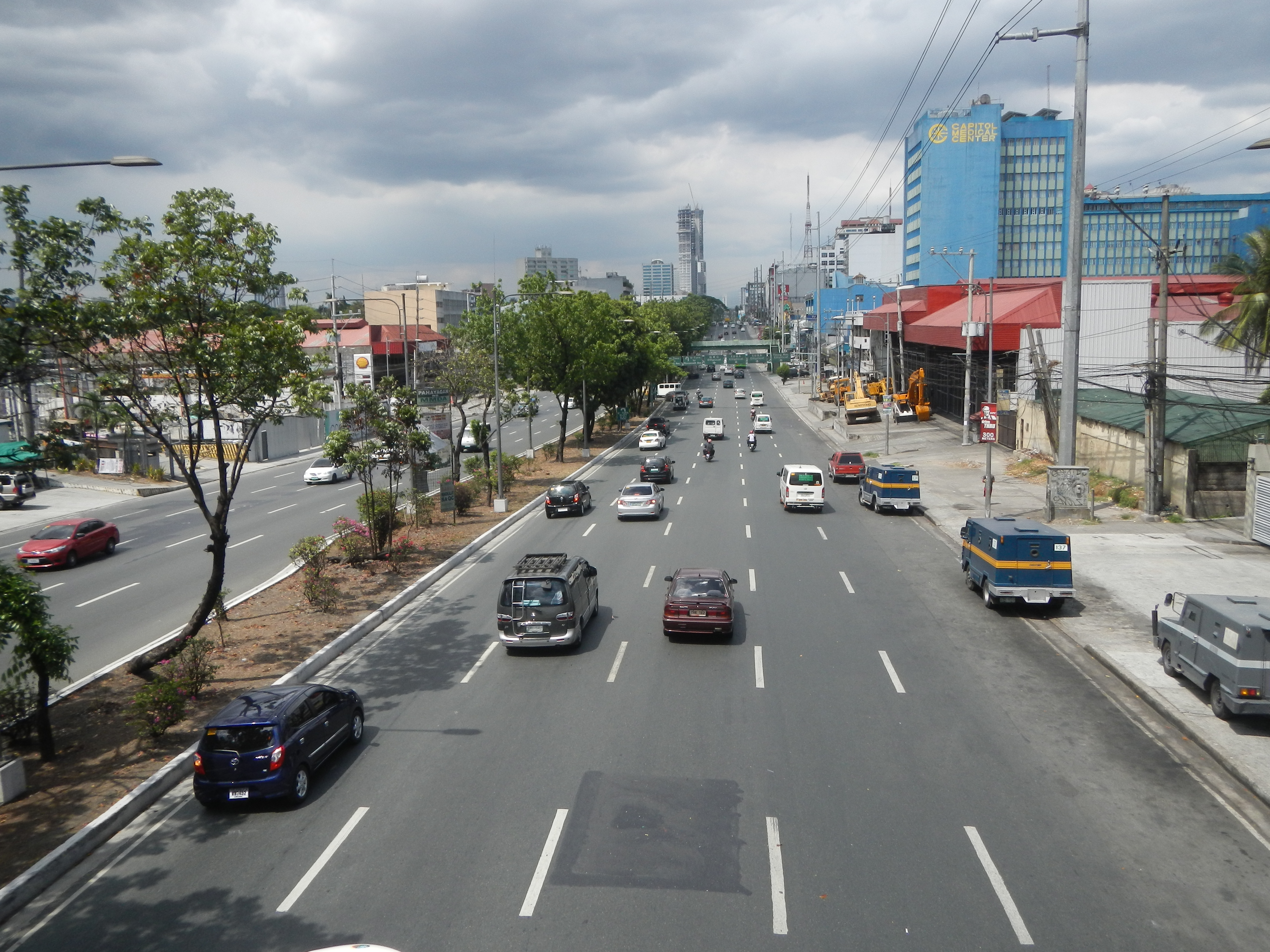 Pedestrian overpass bridge (Fisher Mall, Quezon Avenue, Quezon City) Hotel Sogo Roosevelt Avenue, Quezon City corner Quezon Avenue Heroes Hills, Legislative districts of Quezon City District 6, Barangays of Quezon City Santa Cruz, beside Paligsahan, District I, Area IV, San Francisco del Monte, Quezon City.